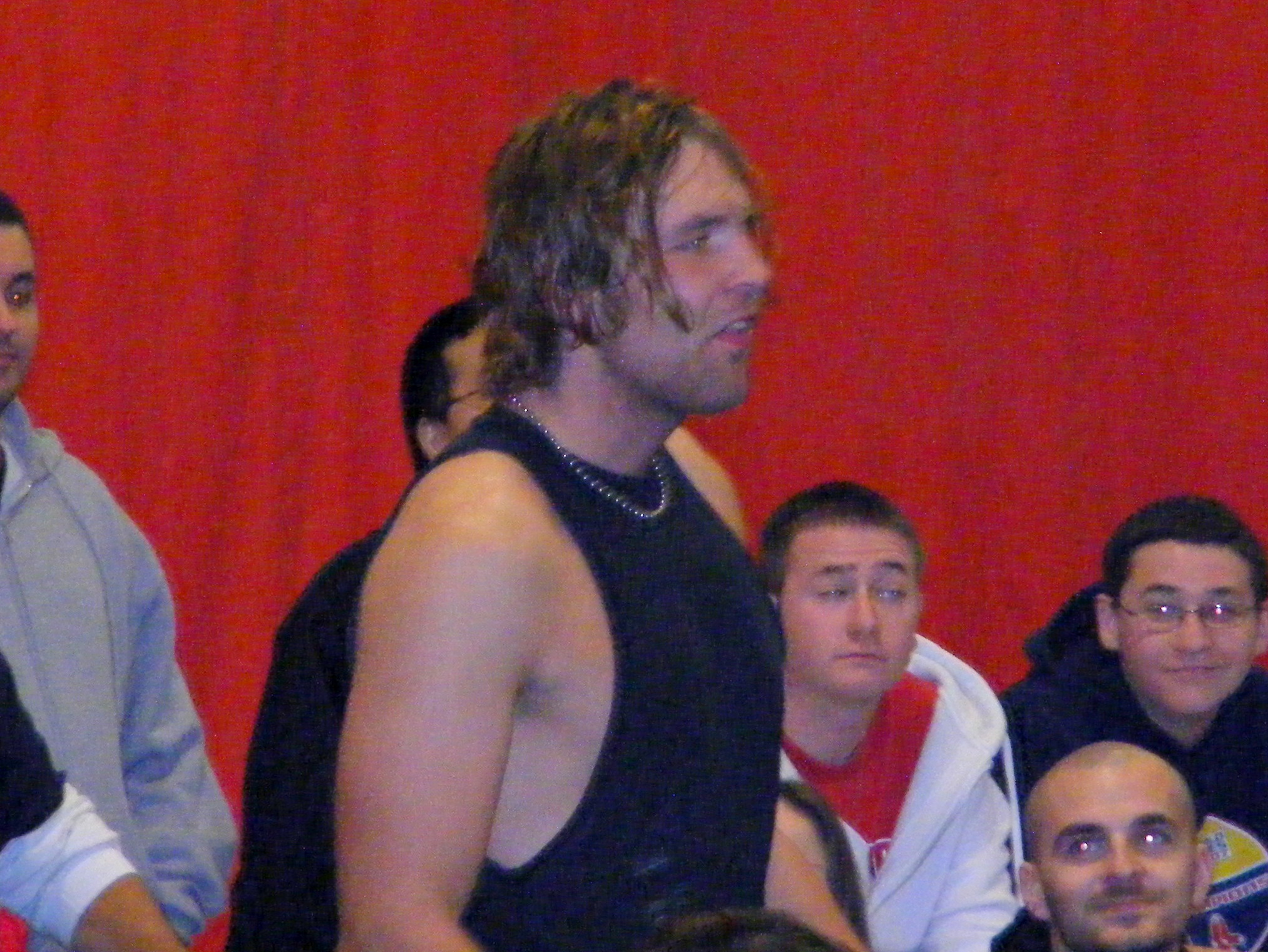 Jon Moxley prior to a match against Nick Gage at a Combat Zone Wrestling show in Tyngsboro, MA on October 16, 2010.